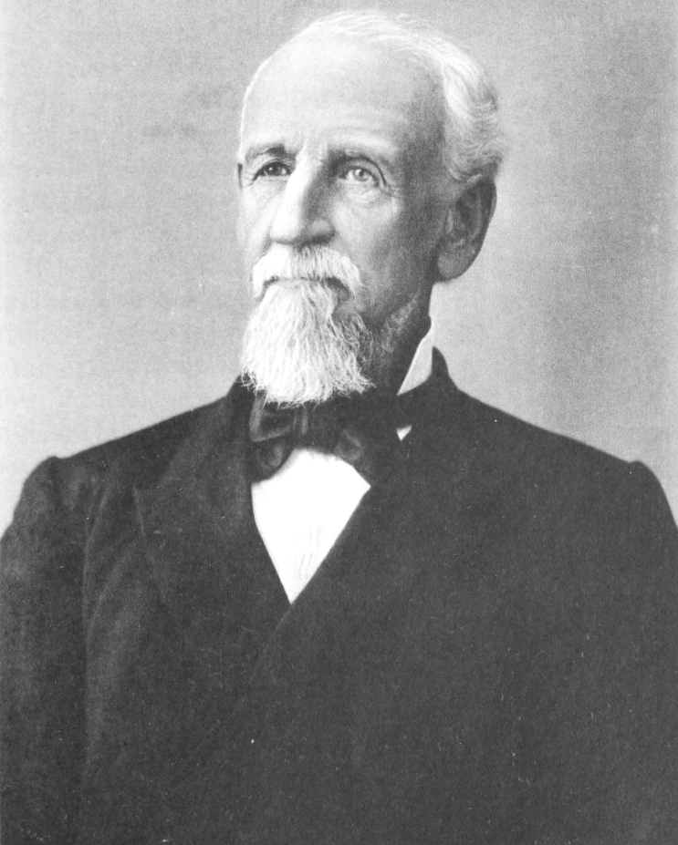 John Whelan Sterling, sometimes called the "father of the University of Wisconsin." b. July 17, 1816 in Pennsylvania, d.March 19, 1885 in Madison, Wisconsin.